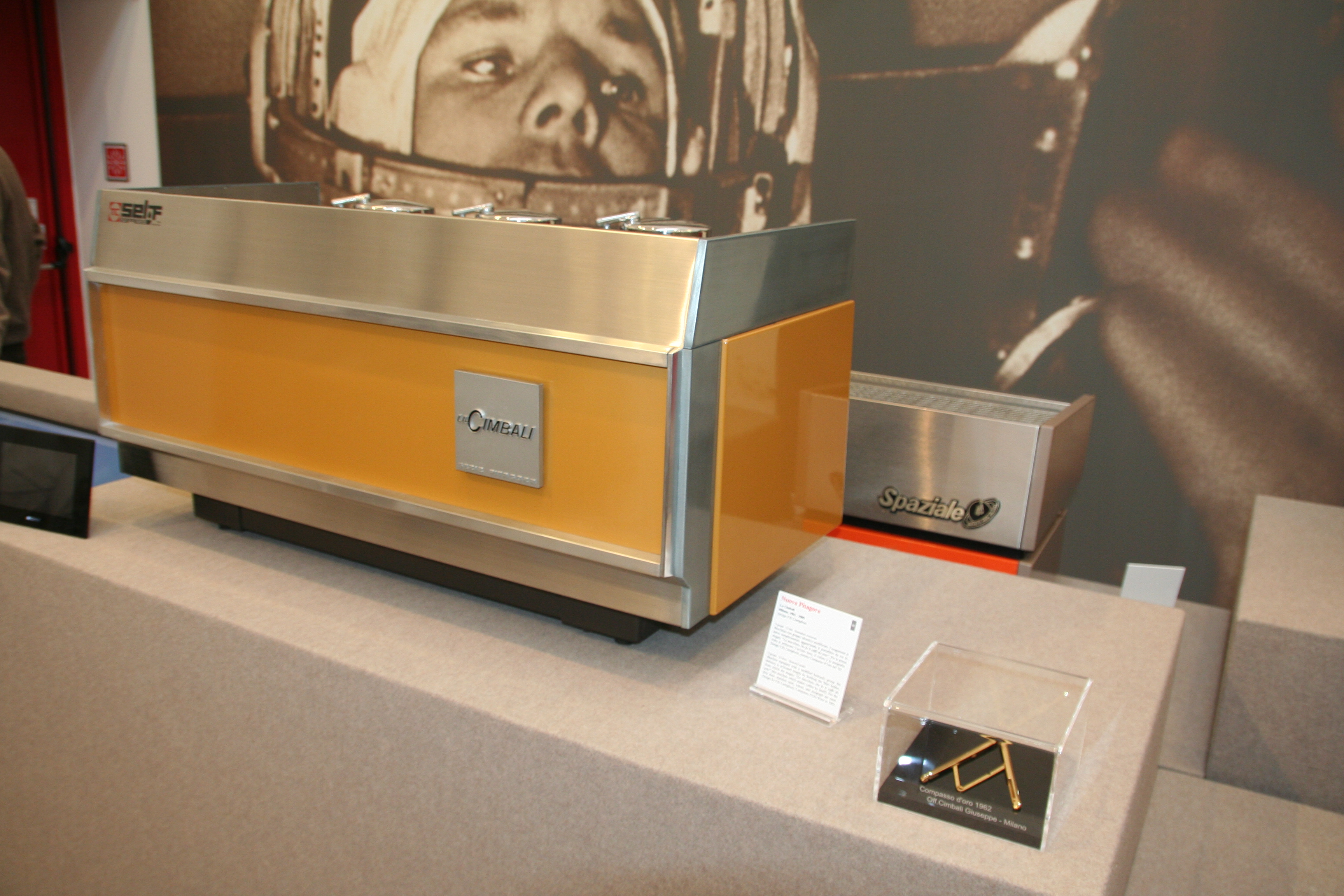 "Pitagora" which won the "Compasso d’Oro" which is on the right, next to the machine. Photo taken inside LaCimali's museum "MUMAC"